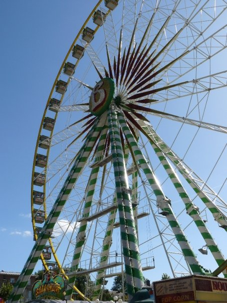 The big Ferris wheel of the Schueberfouer funfair of the city of Luxemburg